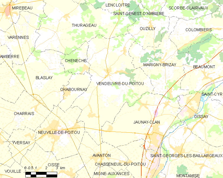 Map of French municipality Vendeuvre-du-Poitou